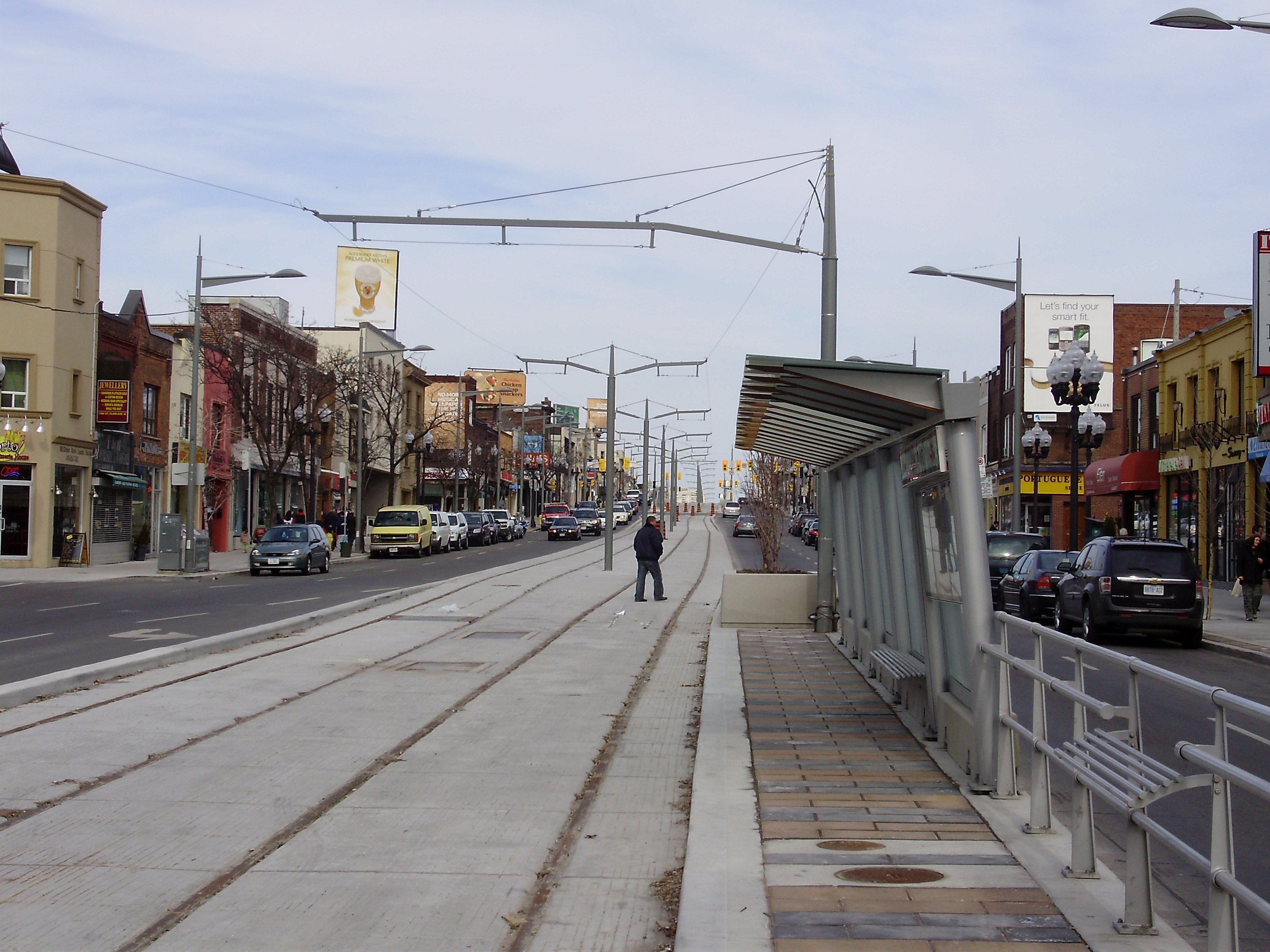 Looking east down St. Clair Avenue, along a portion of the 512 St. Clair streetcar right-of-way, in the Corso Italia neighbourhood of Toronto, Ontario, Canada.